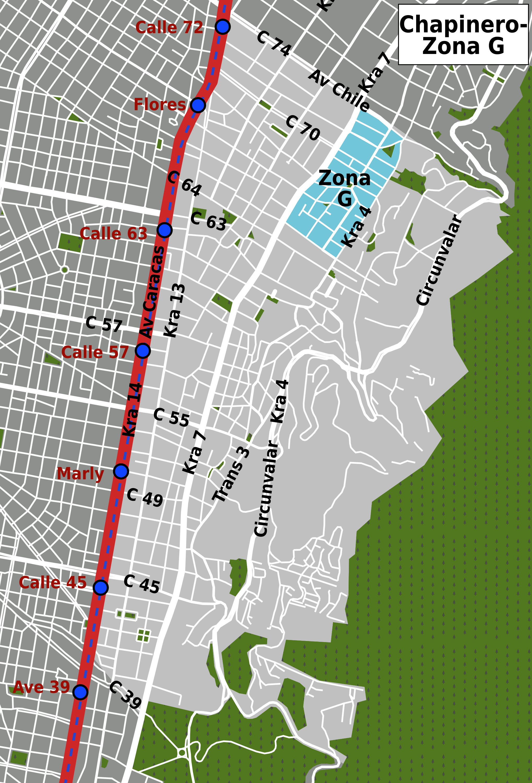 Chapinero Central travel map